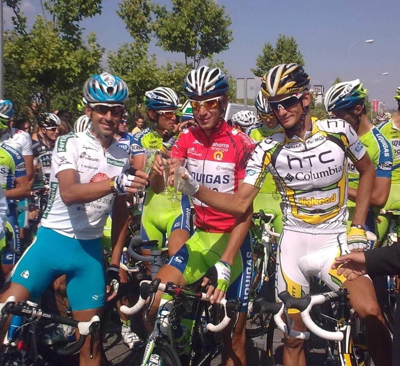 Ezequiel Mosquera, Vincenzo Nibali and Peter Velits toasting with champagne at the Vuelta a España 2010.